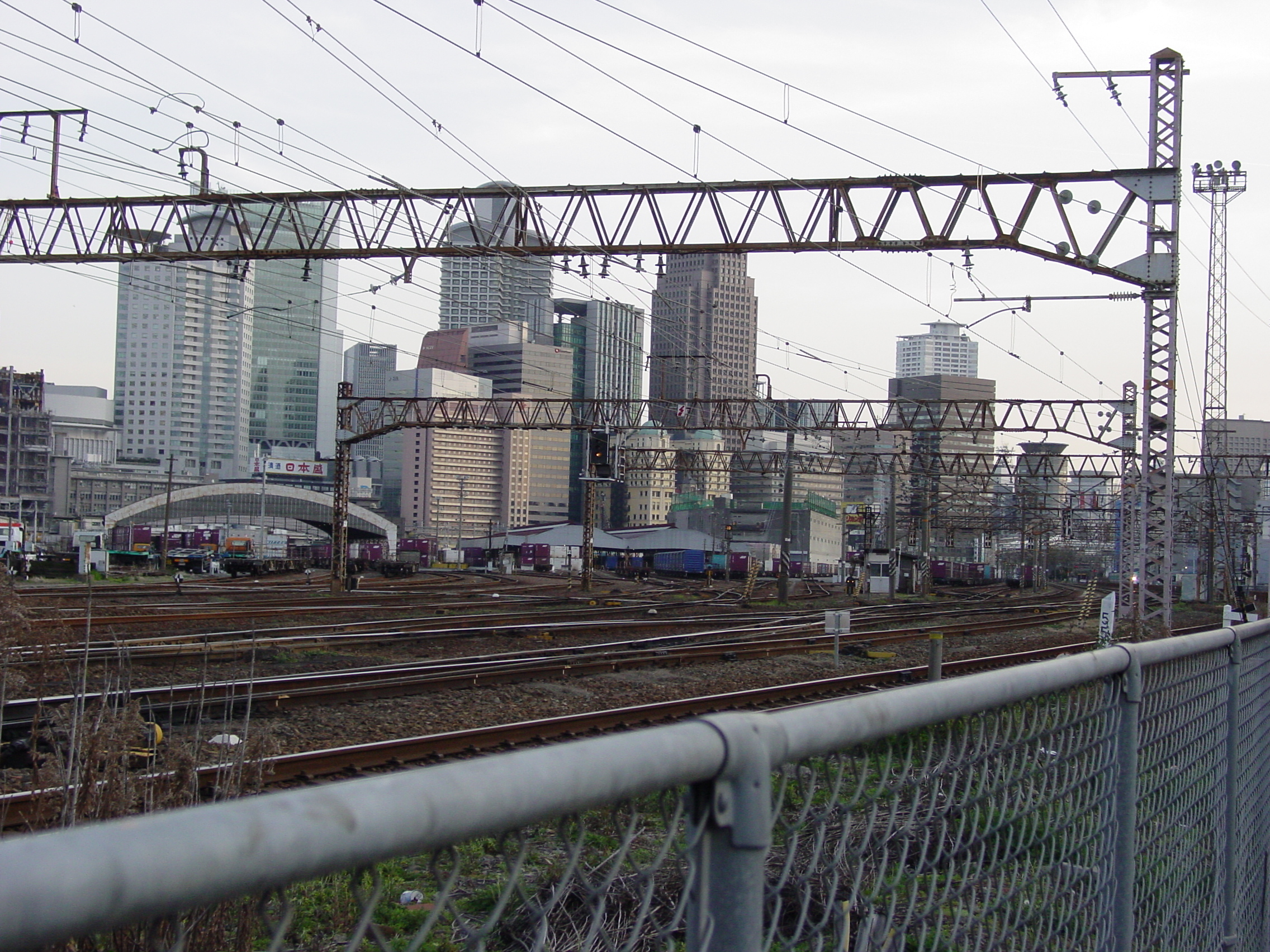 JR Freight Umeda Station